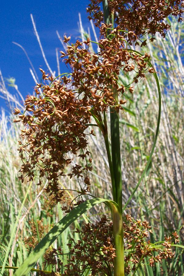 Cladium californicum Courtesy of USDI BLM. United States, NV, Clark Co.. September 2003.